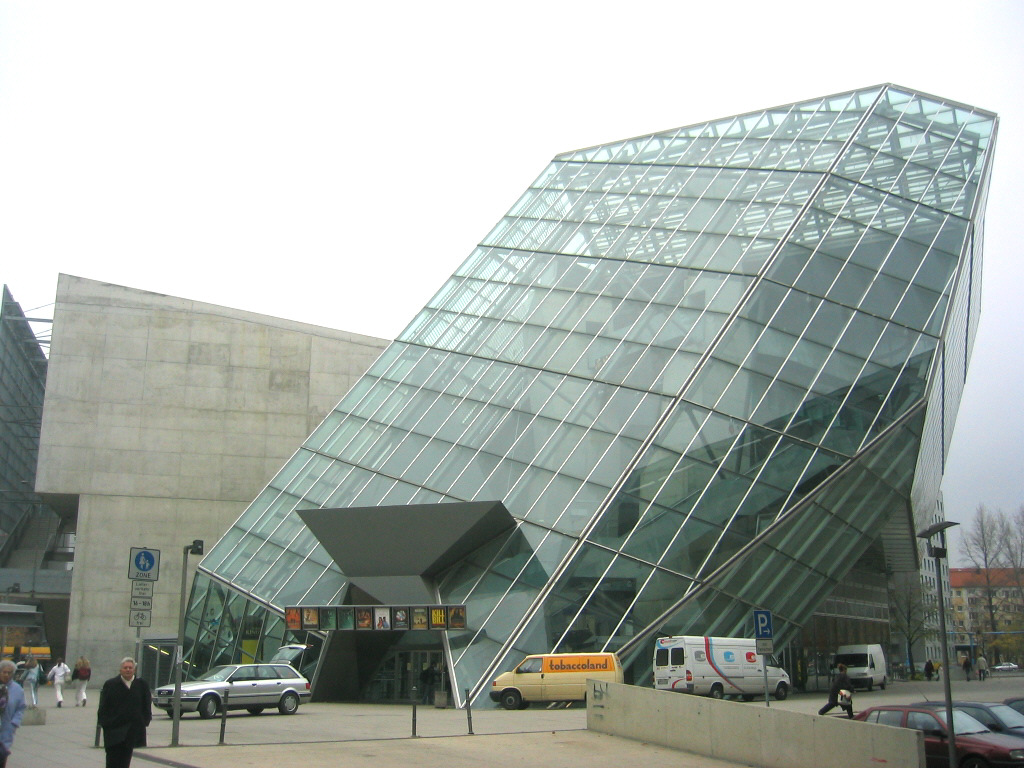 Dresden, Germany: UFA Cinema Center. Architects: Coop Himmelb(l)au